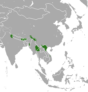 Blanford's Fruit Bat (Sphaerias blanfordi) range